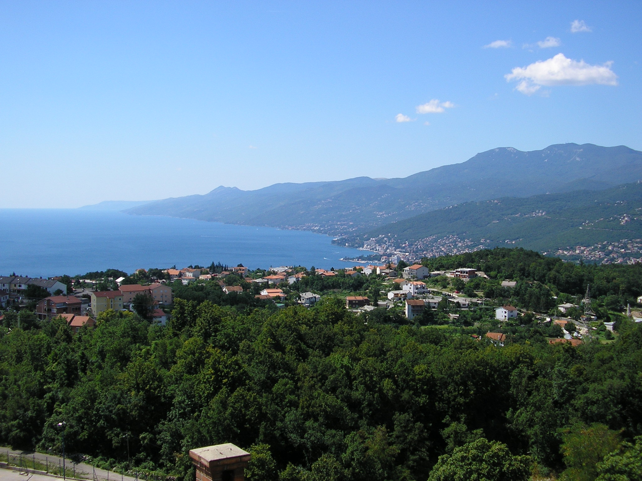 A view from Kastav, Croatia to the Bay of Kvarner